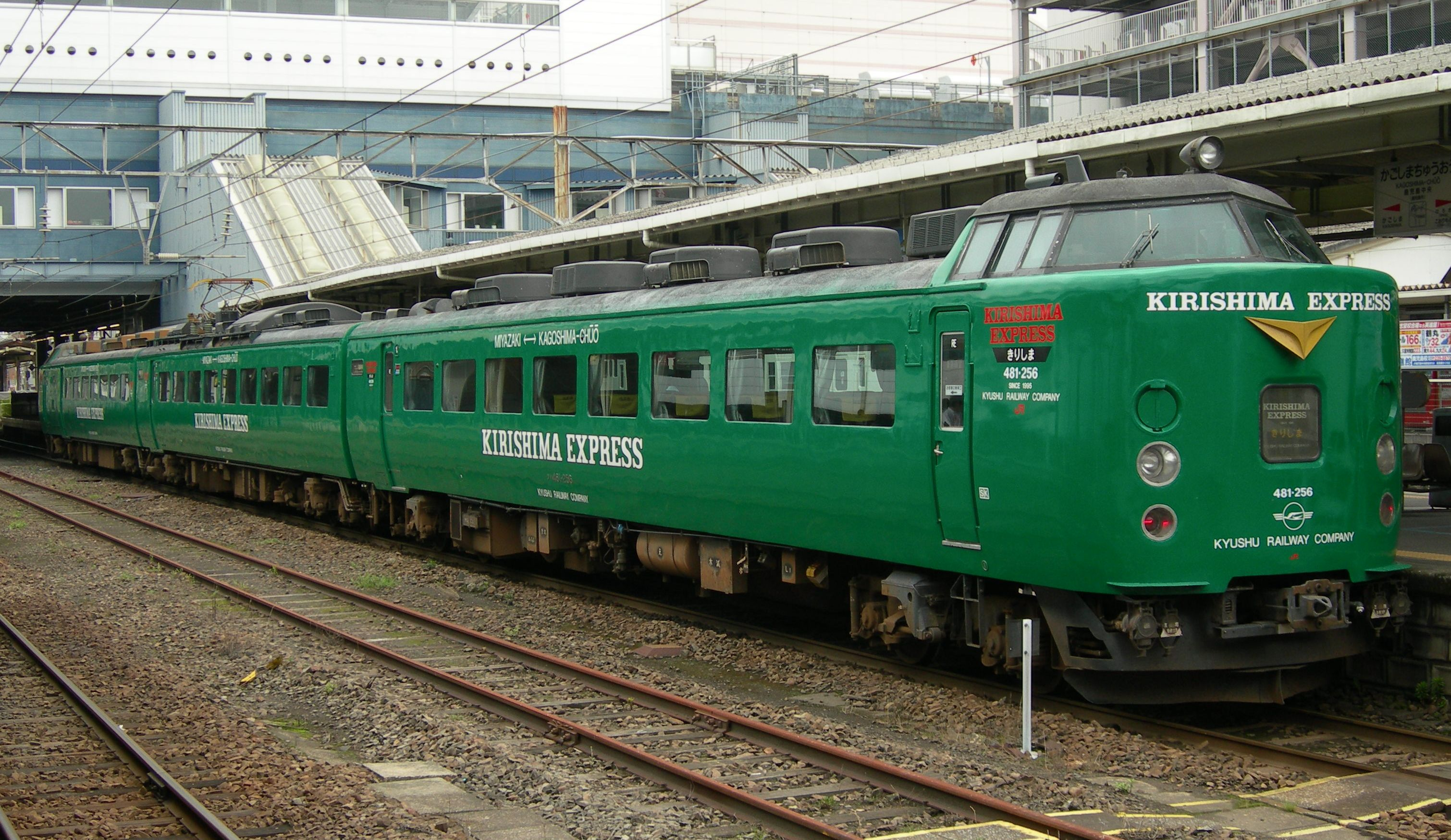 A JR Kyushu 485-200 series EMU at Kagoshima-Chuo Station